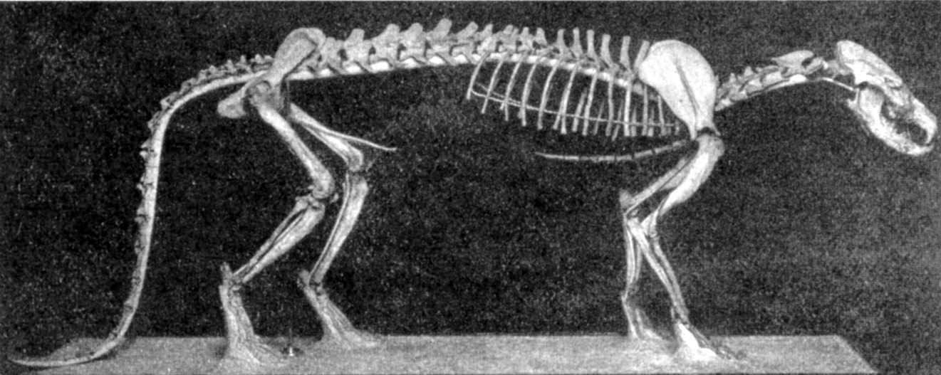 Daphoenodon (formerly Daphoenus) superbus skeleton.